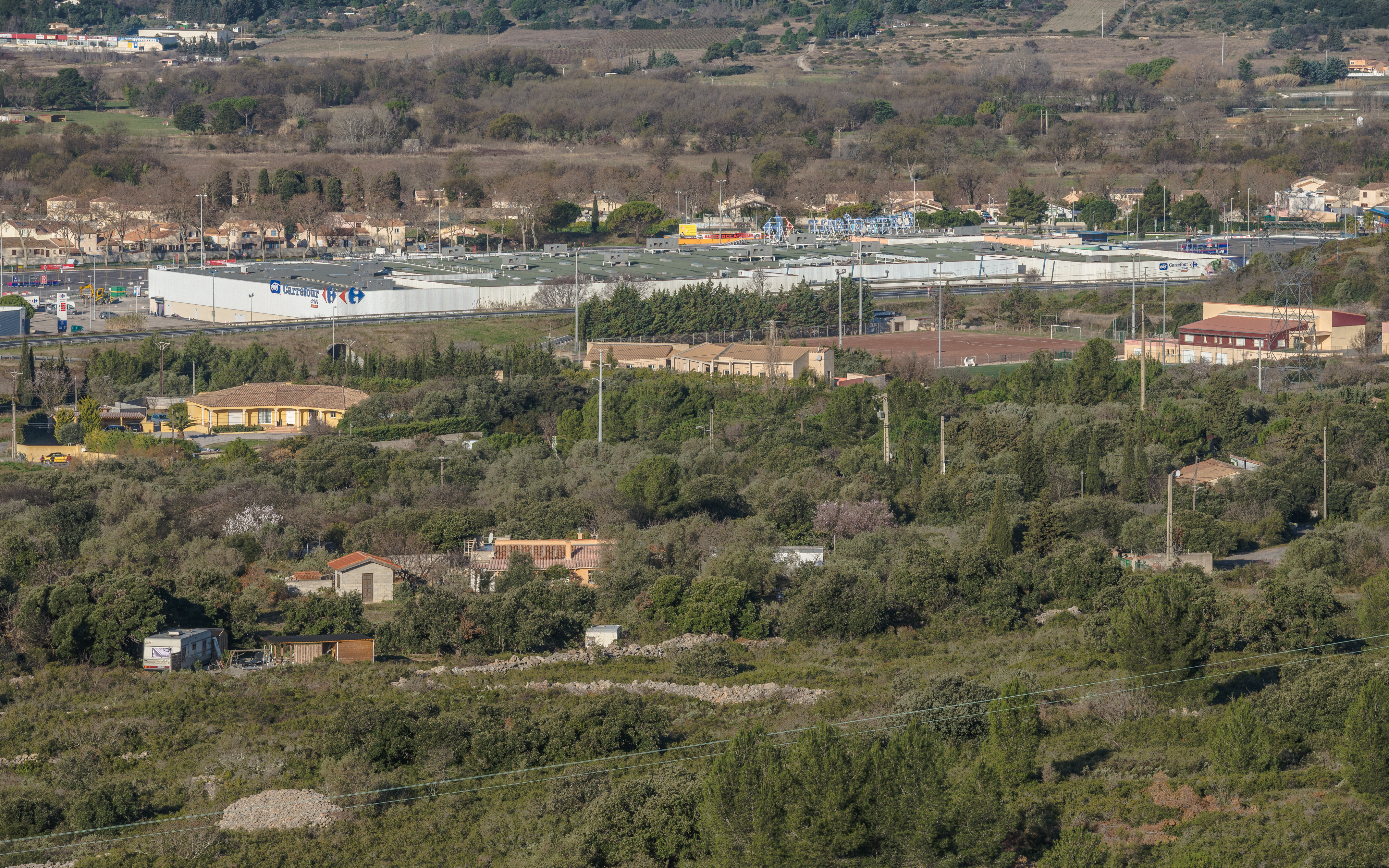 The Carrefour shopping mall of Balaruc-le-Vieux from the Southeast, Hérault, France.